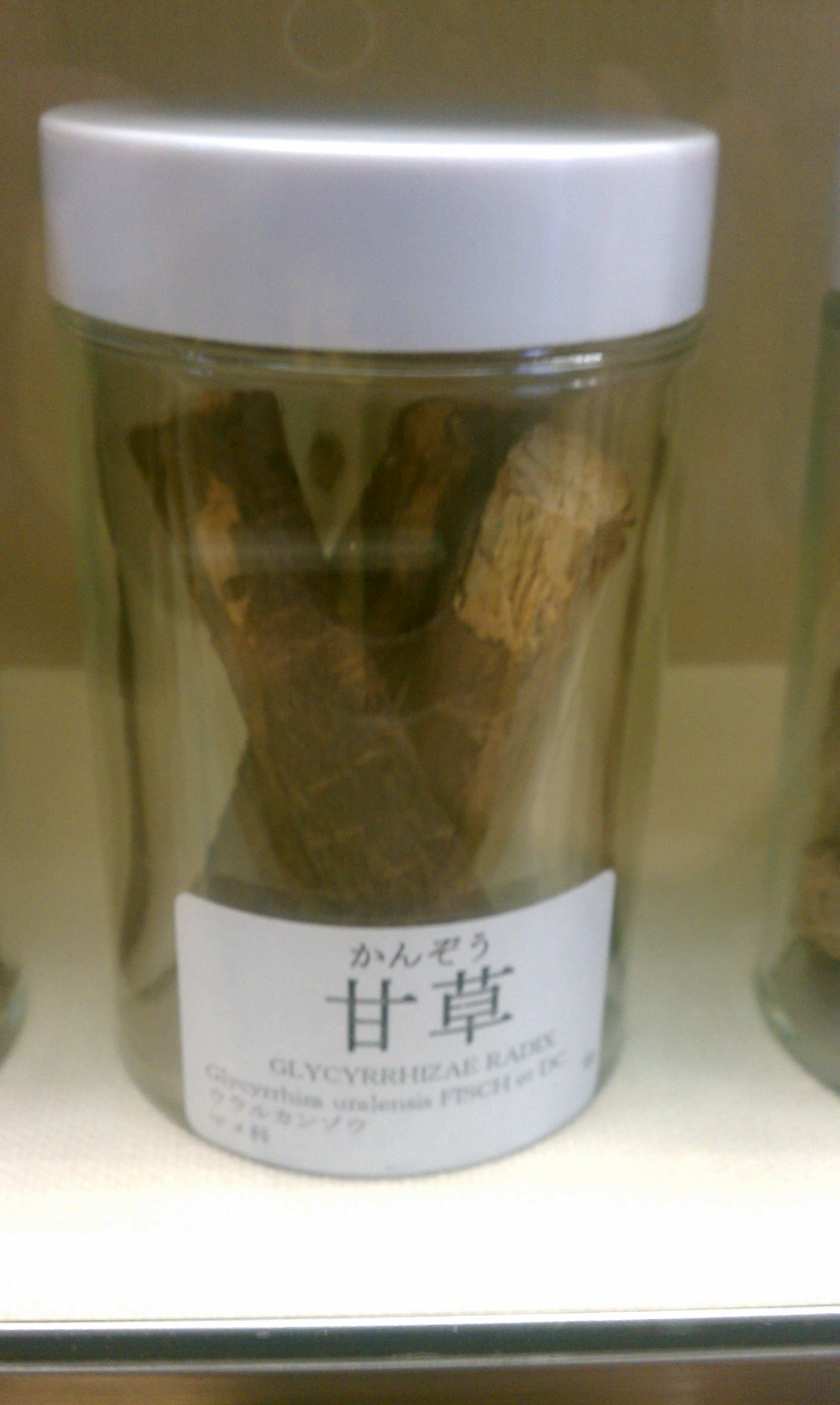 Glycyrrhiza use chinese treditional medicine